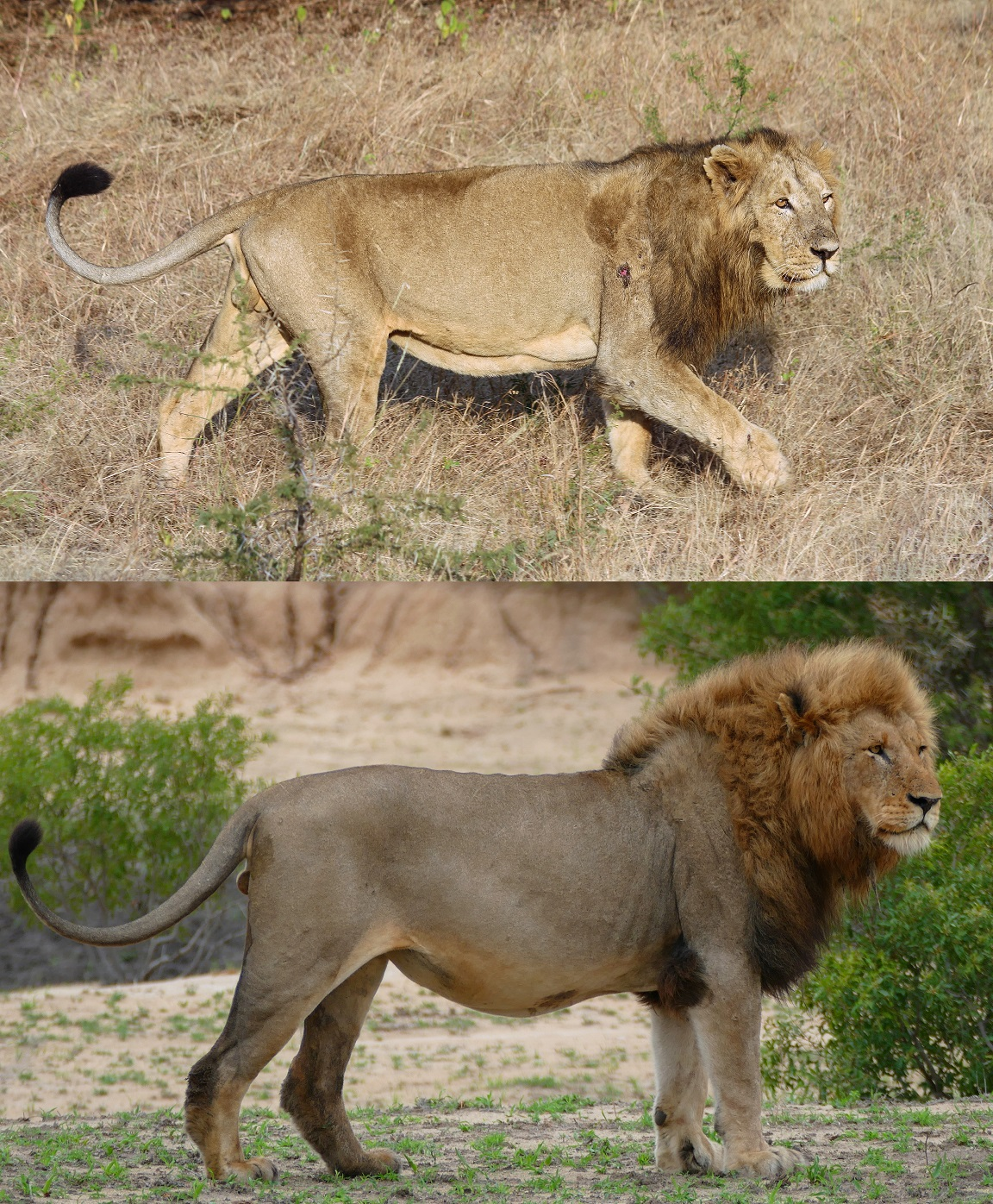 Montage of an Asiatic and south African lion